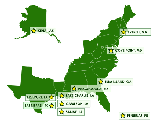 LNG Import and Export Facilities located onshore or in state waters under FERC jurisdiction.